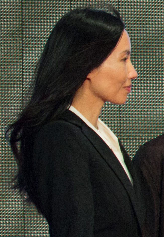 Members of the International Competition Jury at Opening Ceremony of the 28th Tokyo International Film Festival